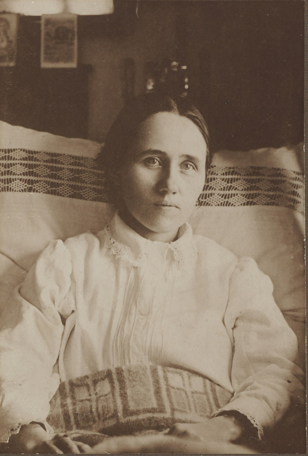 Saint Anna Schäffer (February 18, 1882–October 5, 1925) at roughly age 40.